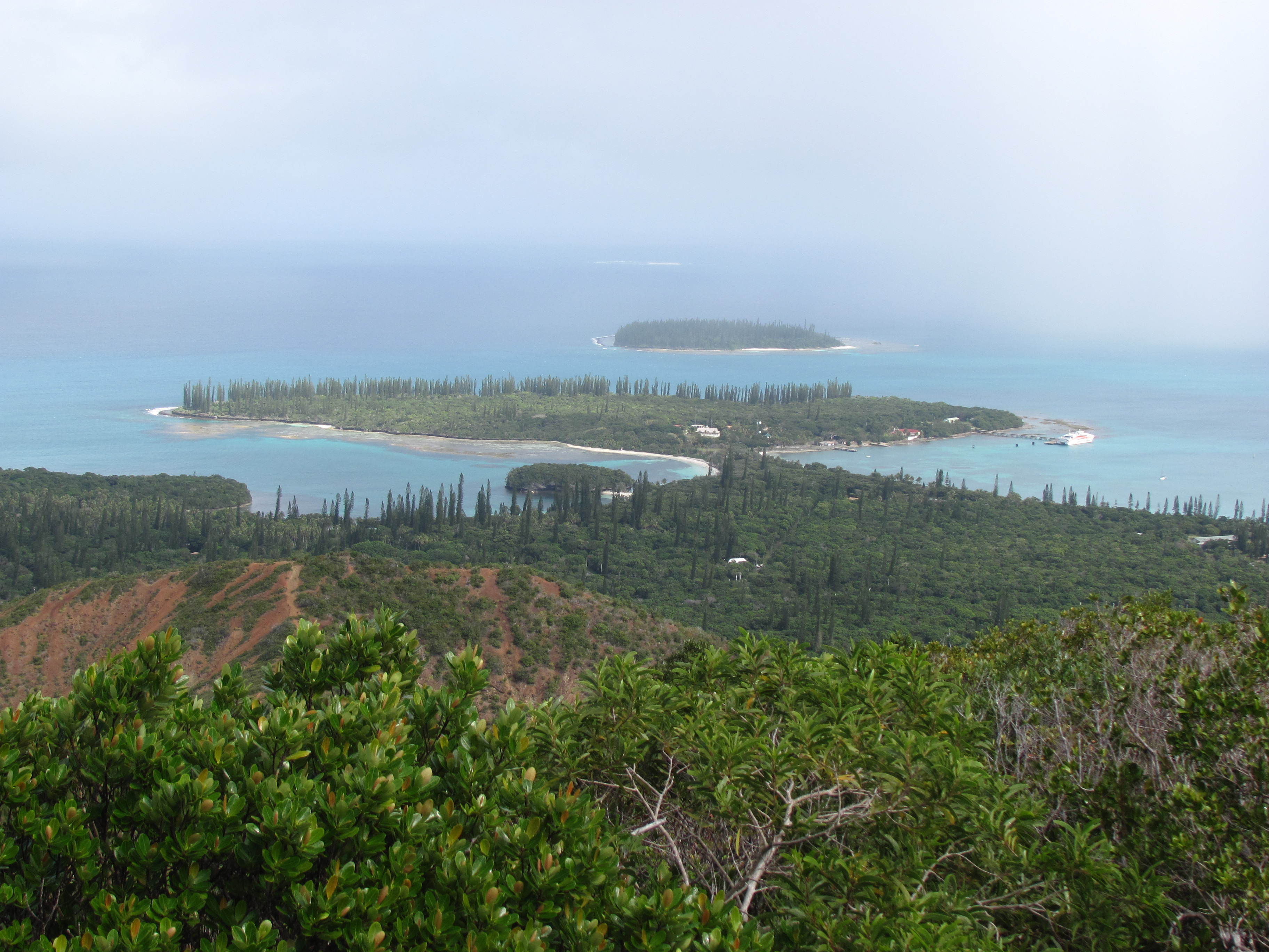 General view of Kuto from Mt. Pic Nga. L'Île-des-Pins, New Caledonia